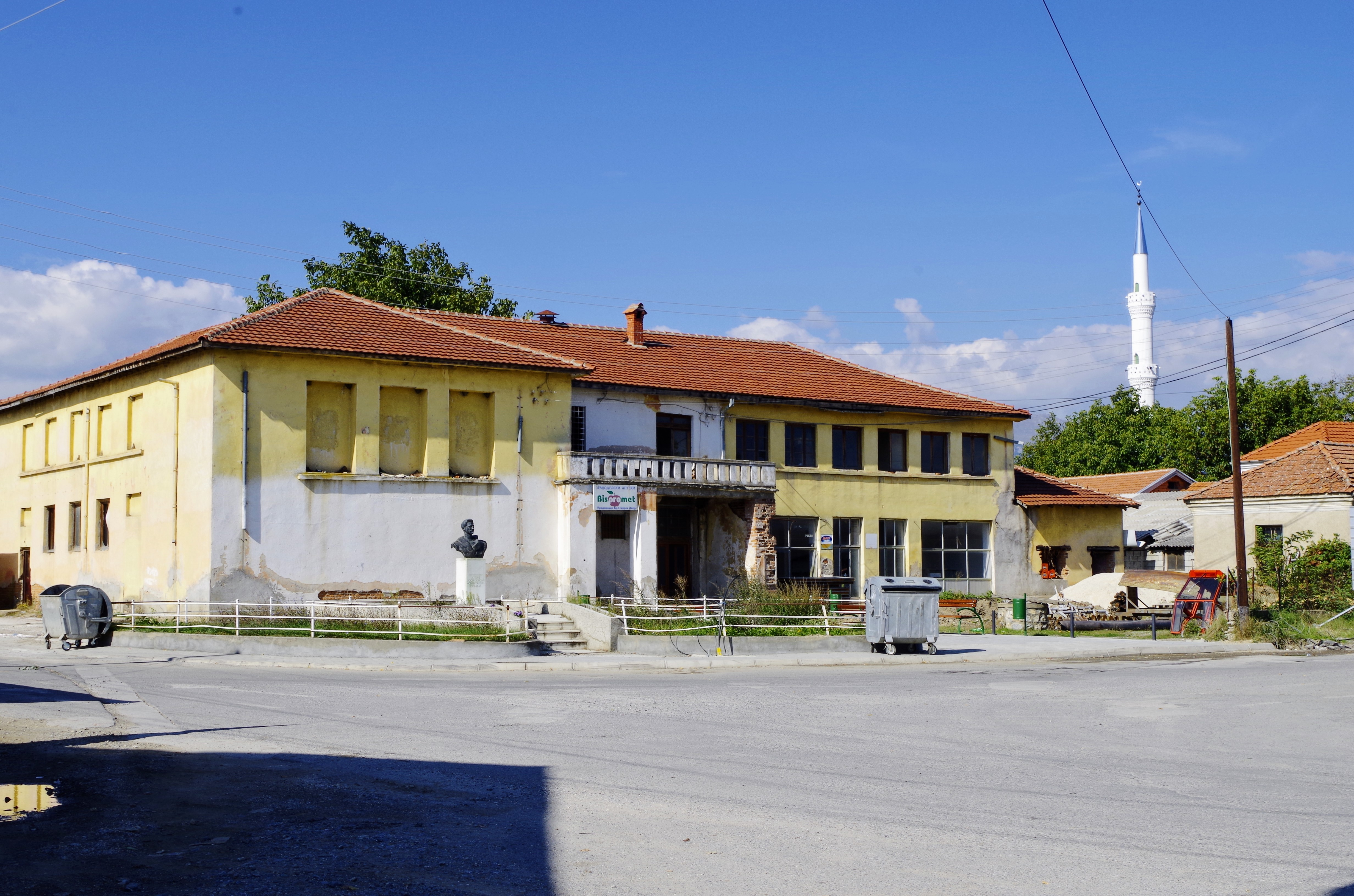 View of the village Carev Dvor